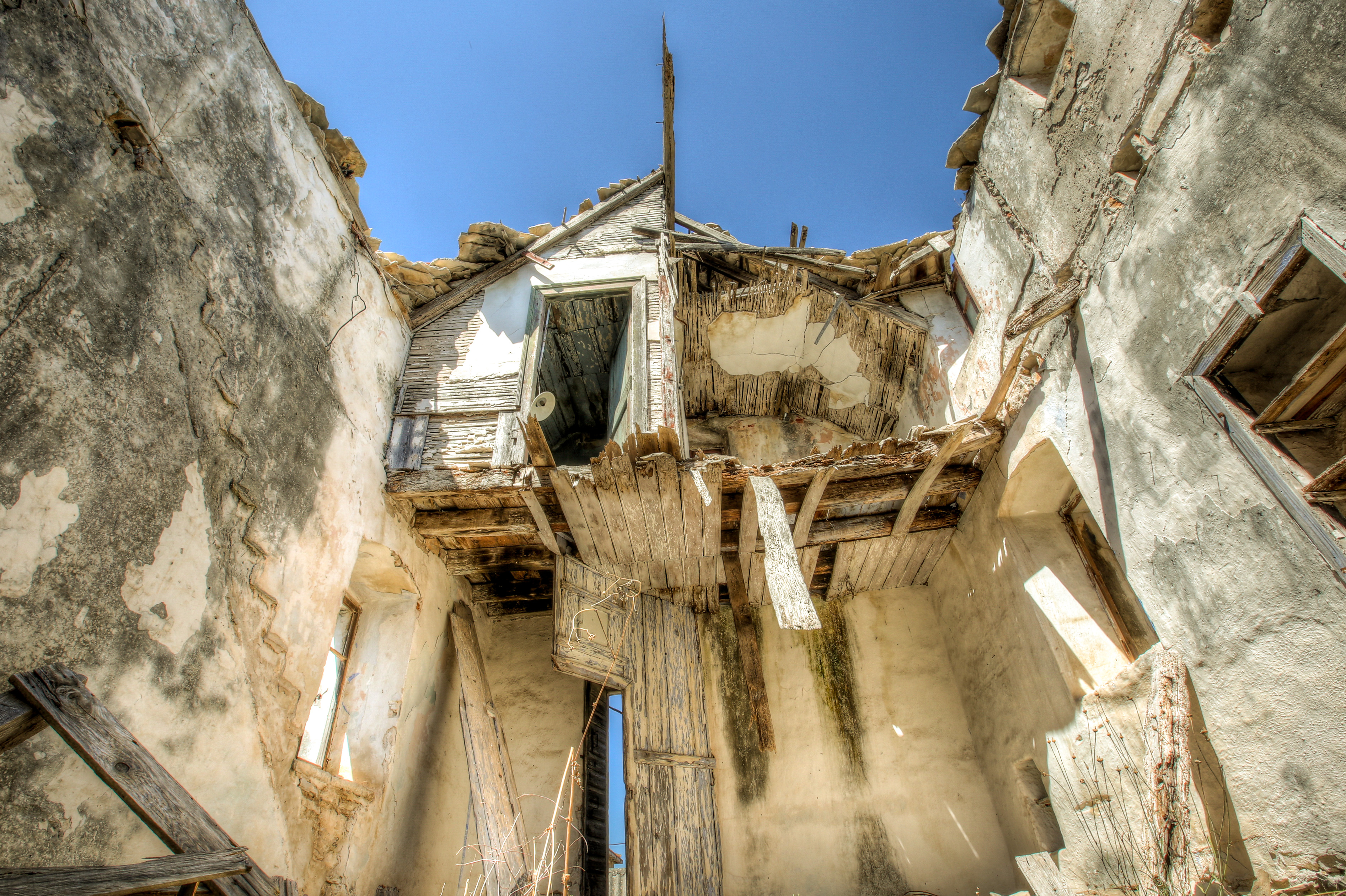 Decaying (as of 2012) multi-storey house in the middle of in Grohote on the island Šolta / Croatia / Adriatic Sea / EU. The stone-covered roof exists only fragmentarily. The wooden floors are broken through. Interior shot of the house.